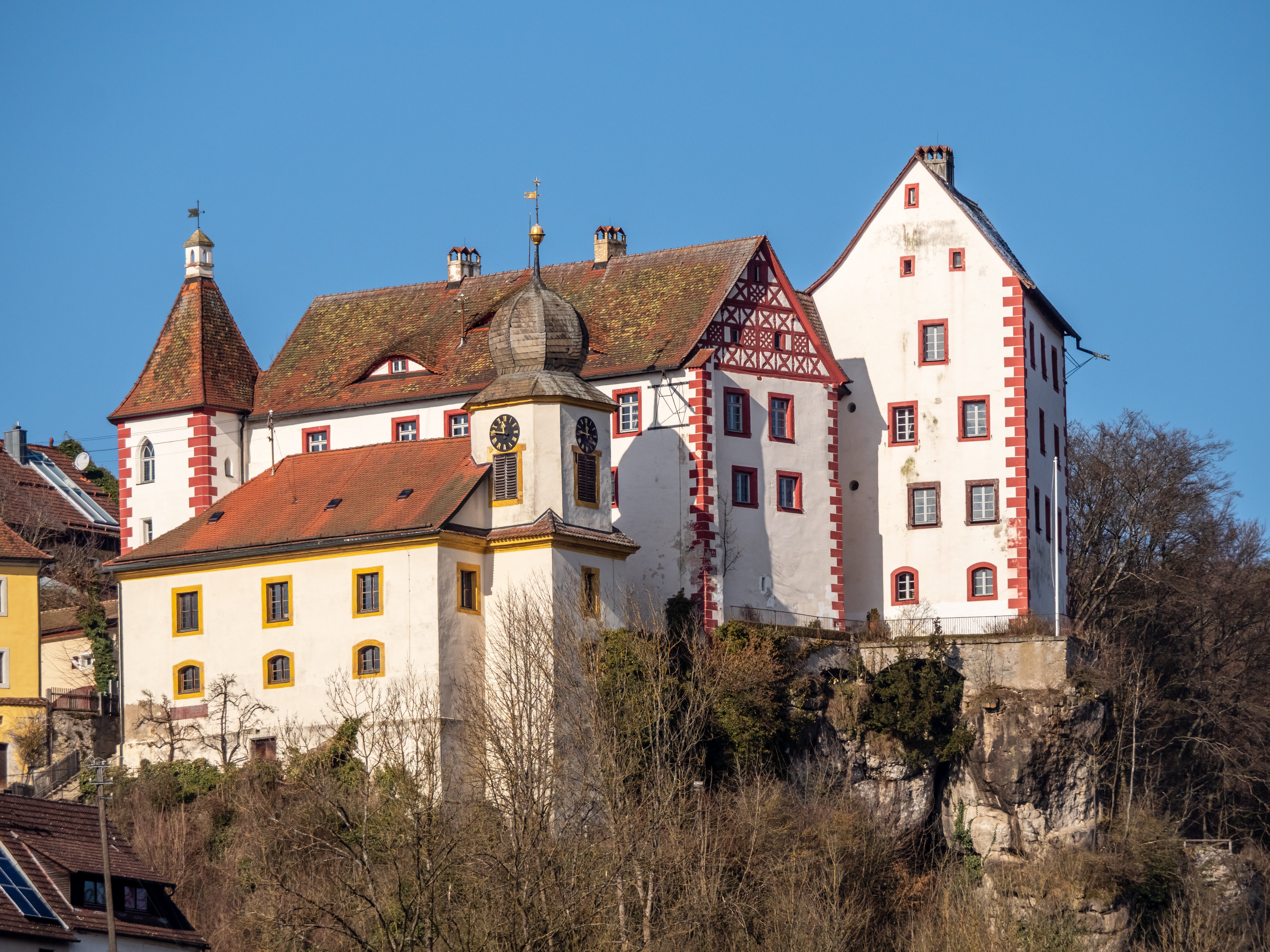 Egloffstein castle